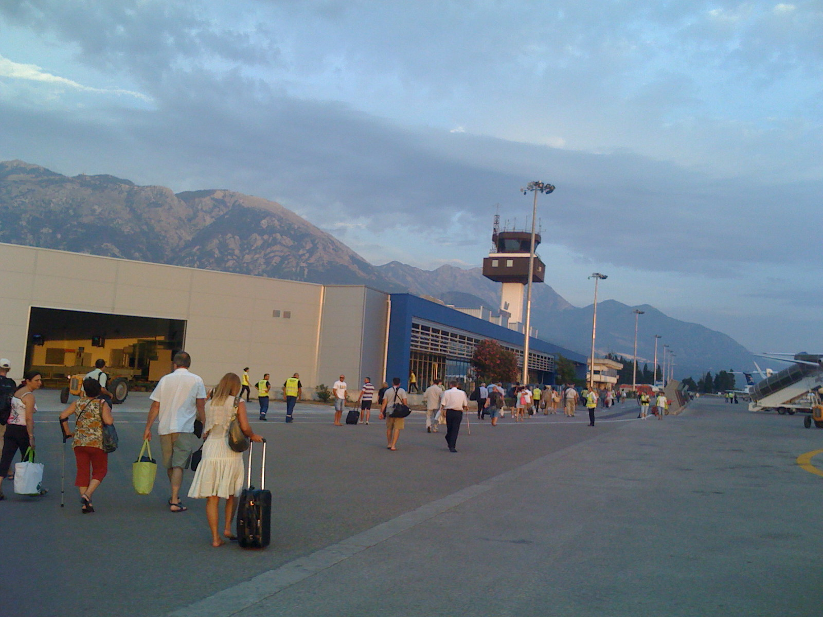 Airport Tivat - new terminal